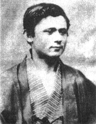 Self portrait by Michael Moser (1853-1912), an Austrian photographer